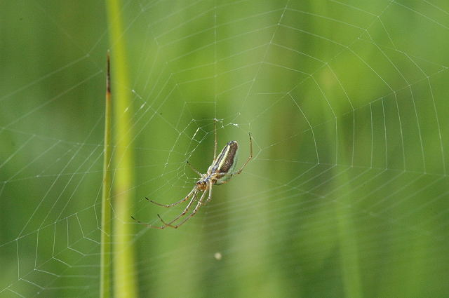 Tetragnatha extensa web, from Commanster, Belgian High Ardennes .